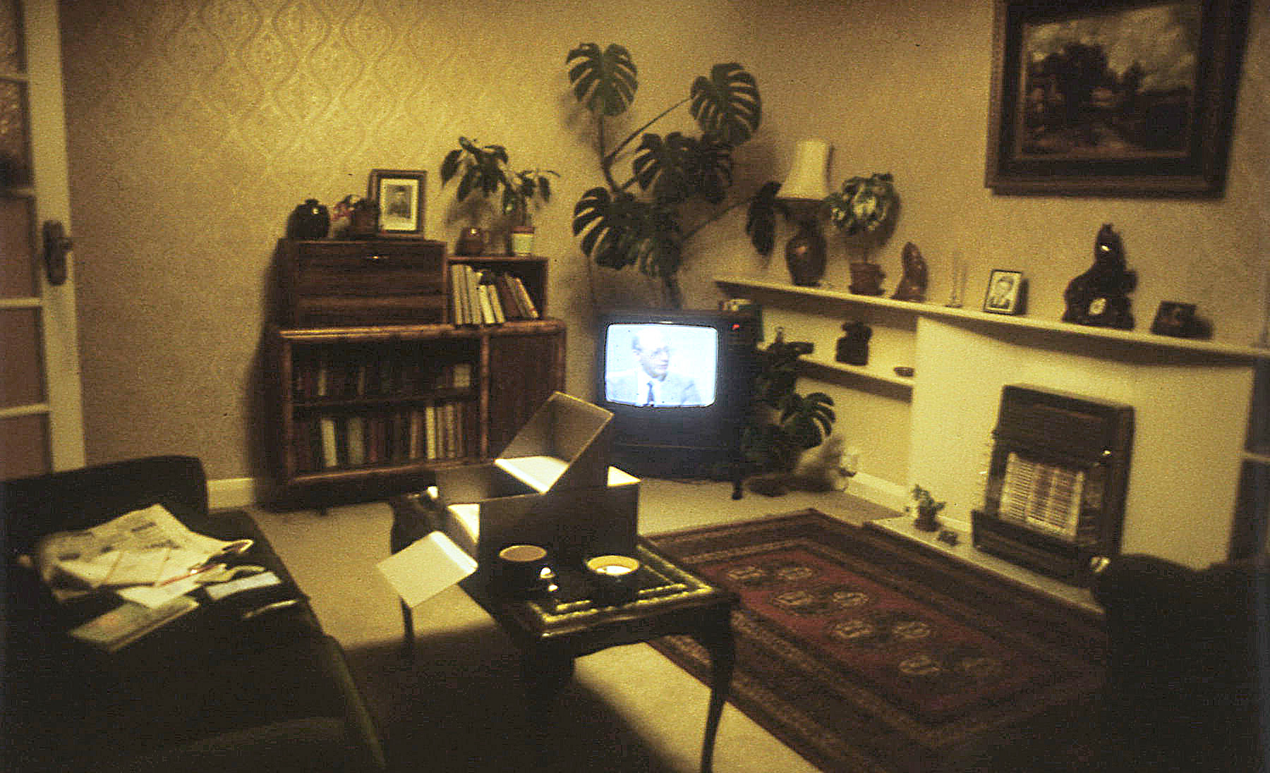 Living room 1980's, Stoneleigh, Epsom, UK